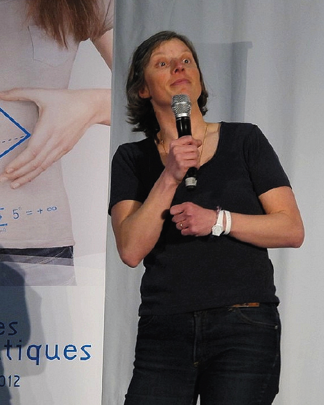 Laure Saint-Raymond (b. 1975), French mathematician